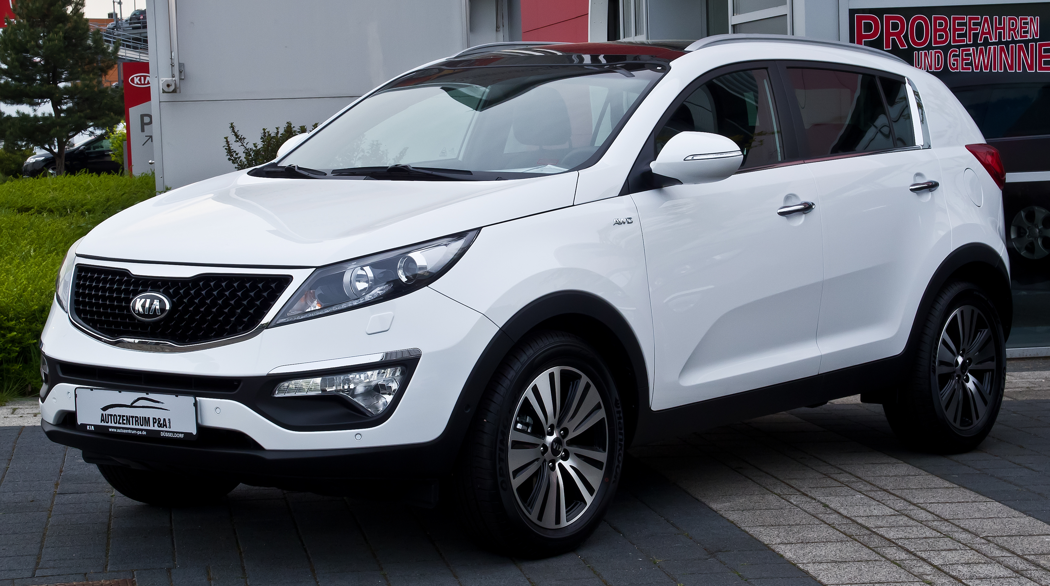 Kia Sportage 2.0 CRDi AWD Platinum Edition (III, Facelift)